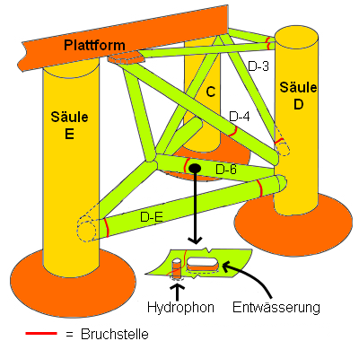 Columns of the oil rig Alexander L. Kielland - drawing shows fractures by fatigue and stormwaves